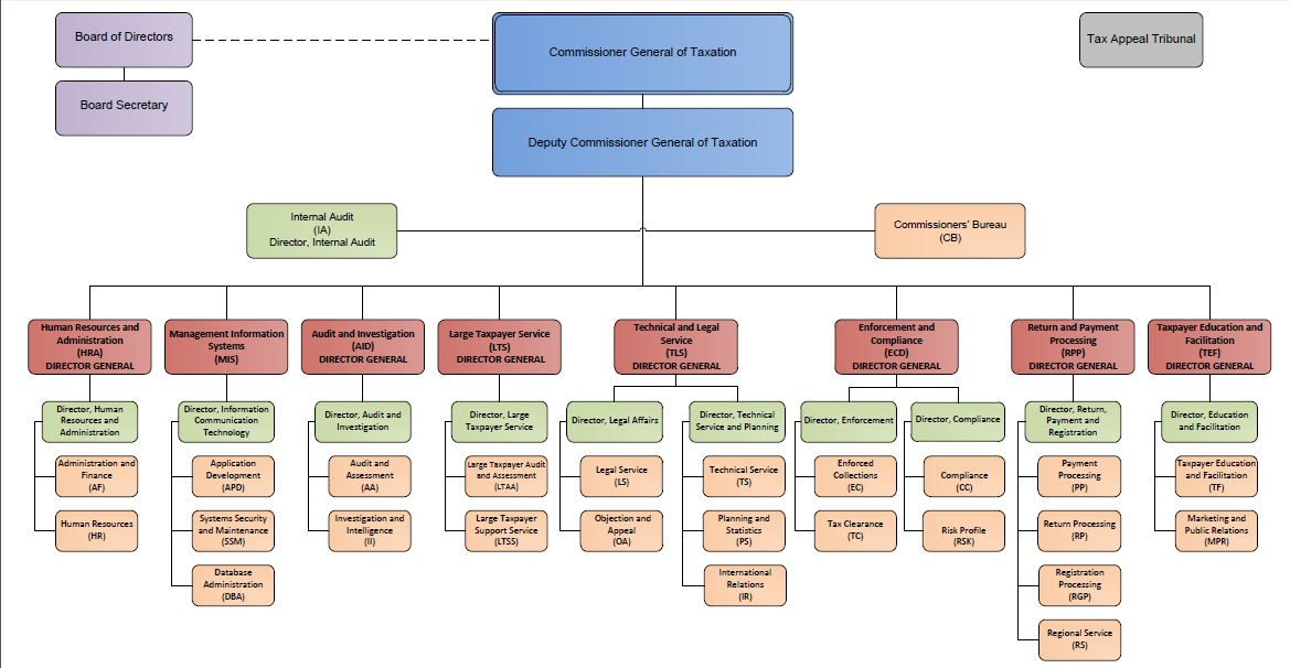 Organisational Chart